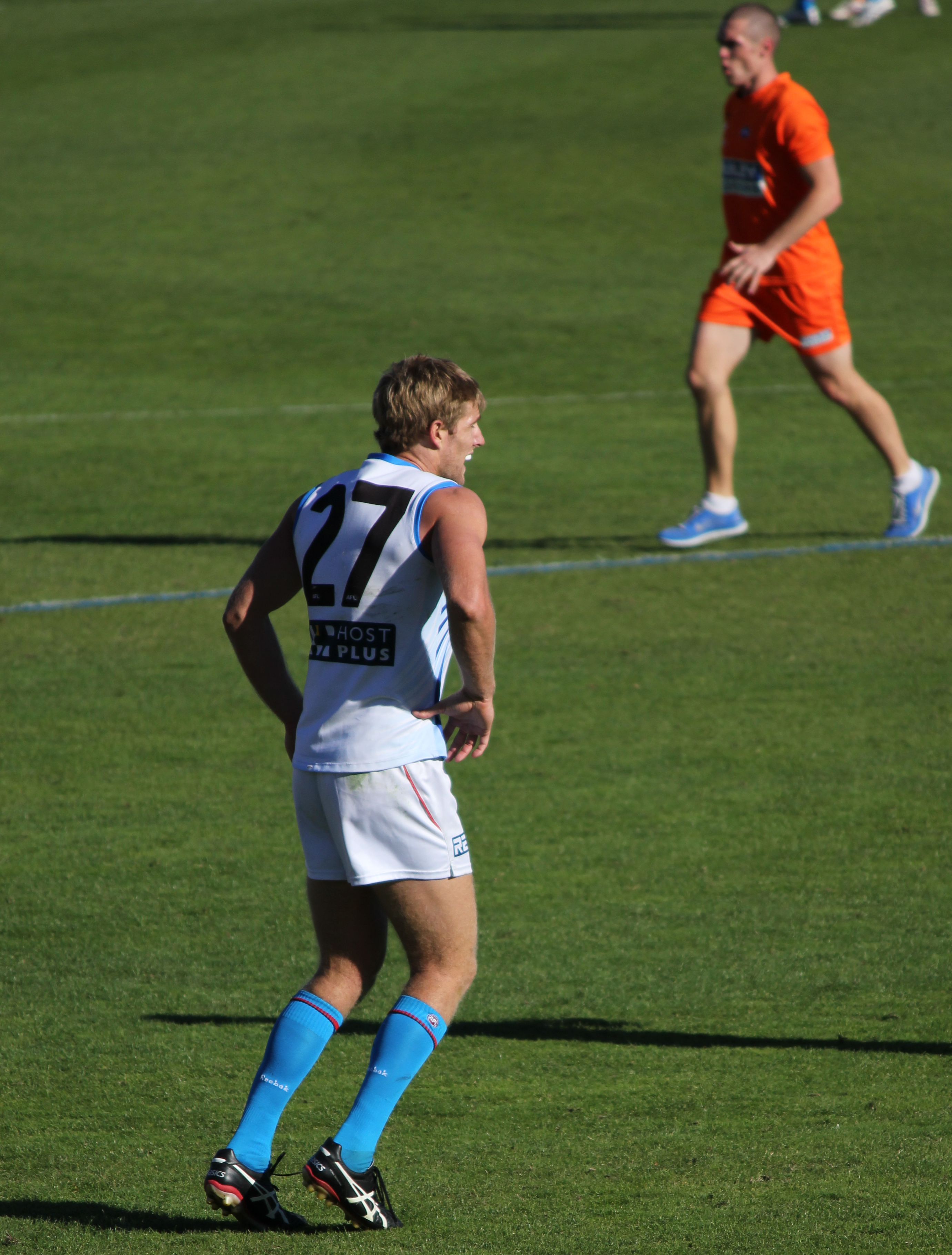 2012 Round 7. GWS Giants vs Gold Coast Suns. Manuka Oval.